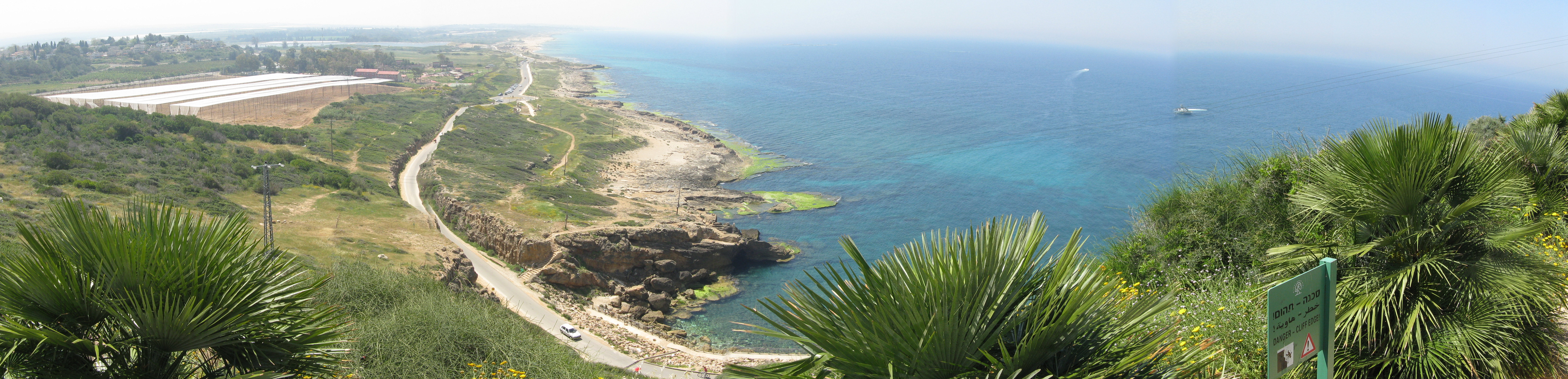 Panorama from Rosh Hanikra mount.